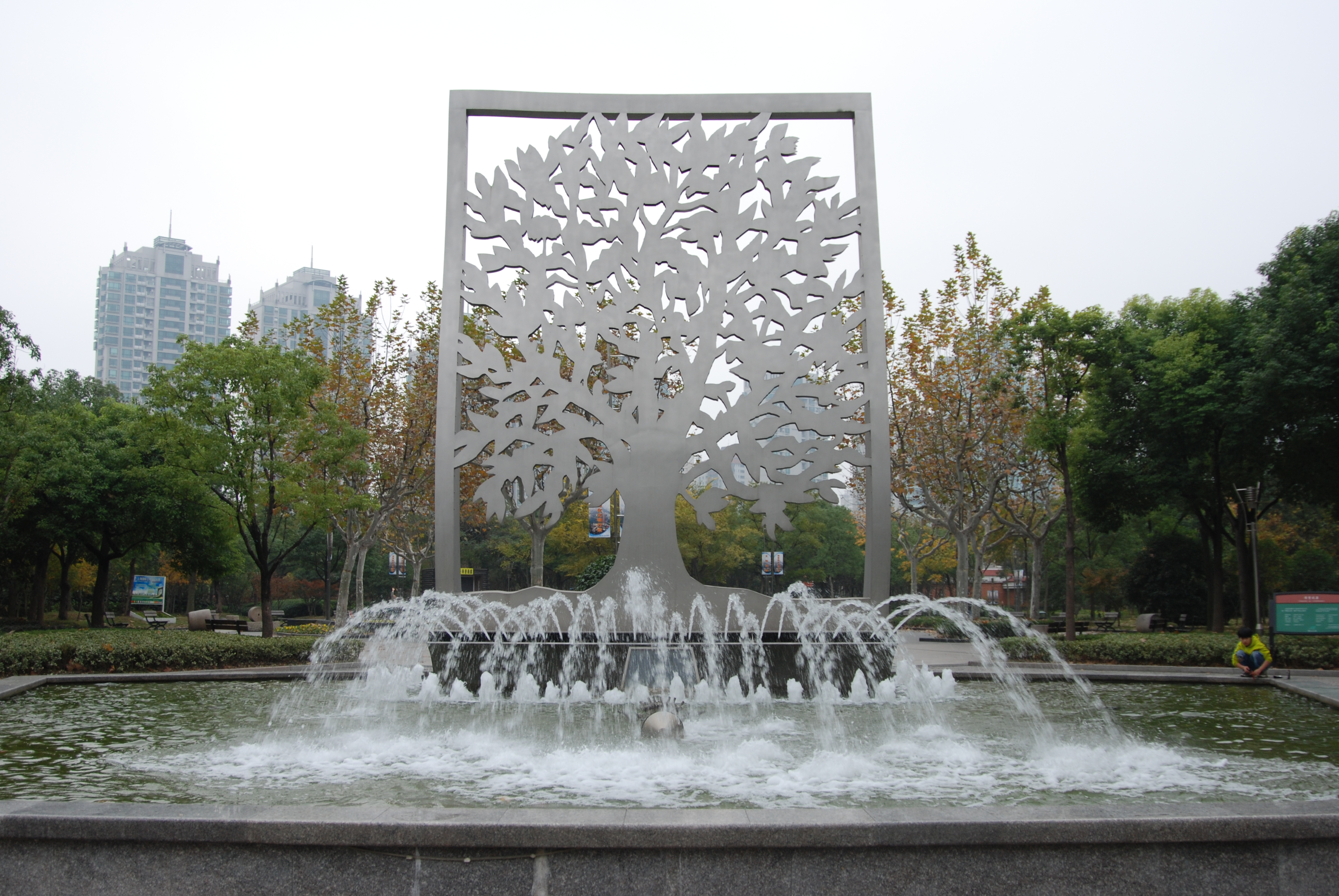 Fontaine de l'Espérance